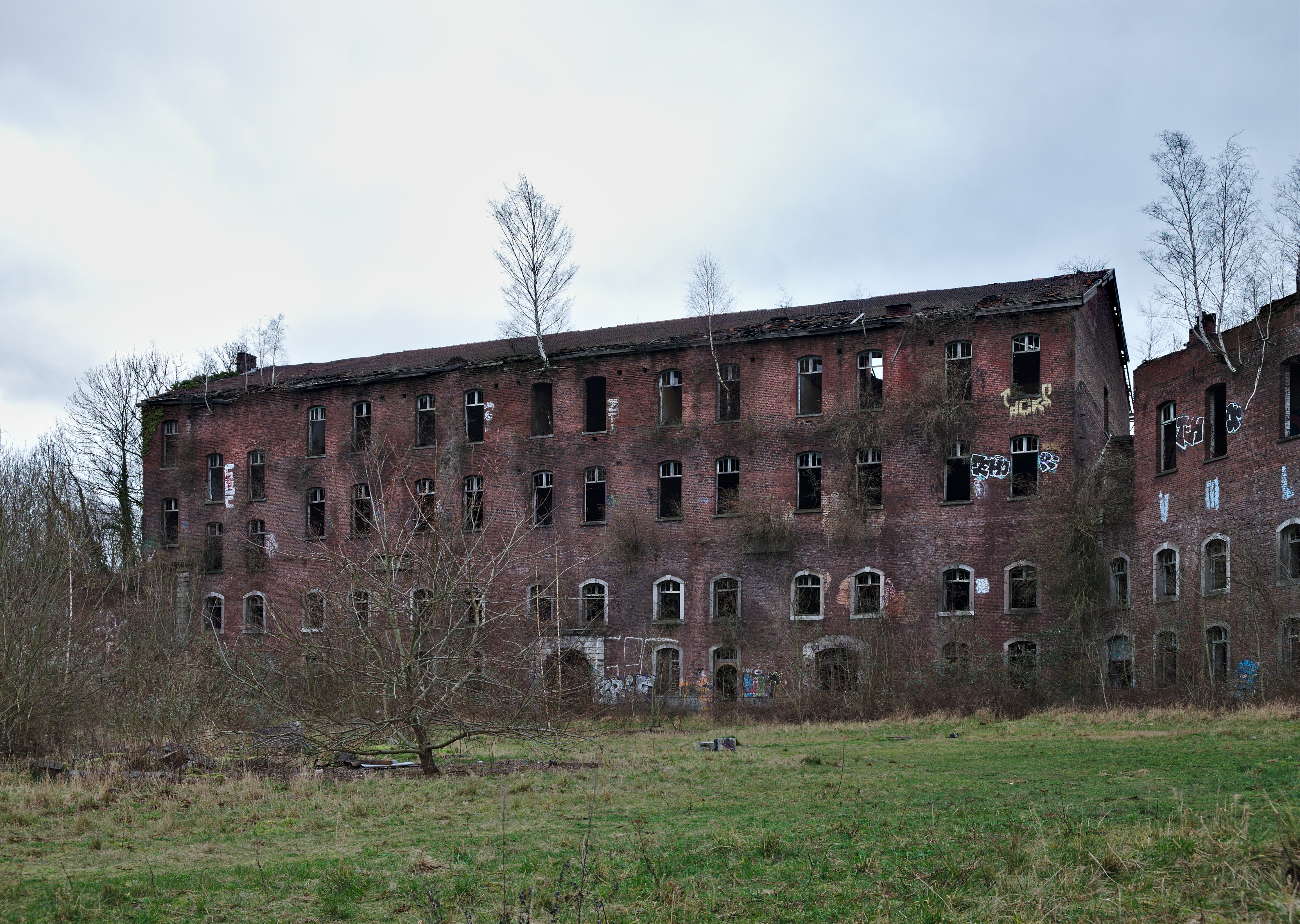 Abandoned military building in Fort de la Chartreuse, Liege, Belgium (DSCF3339)